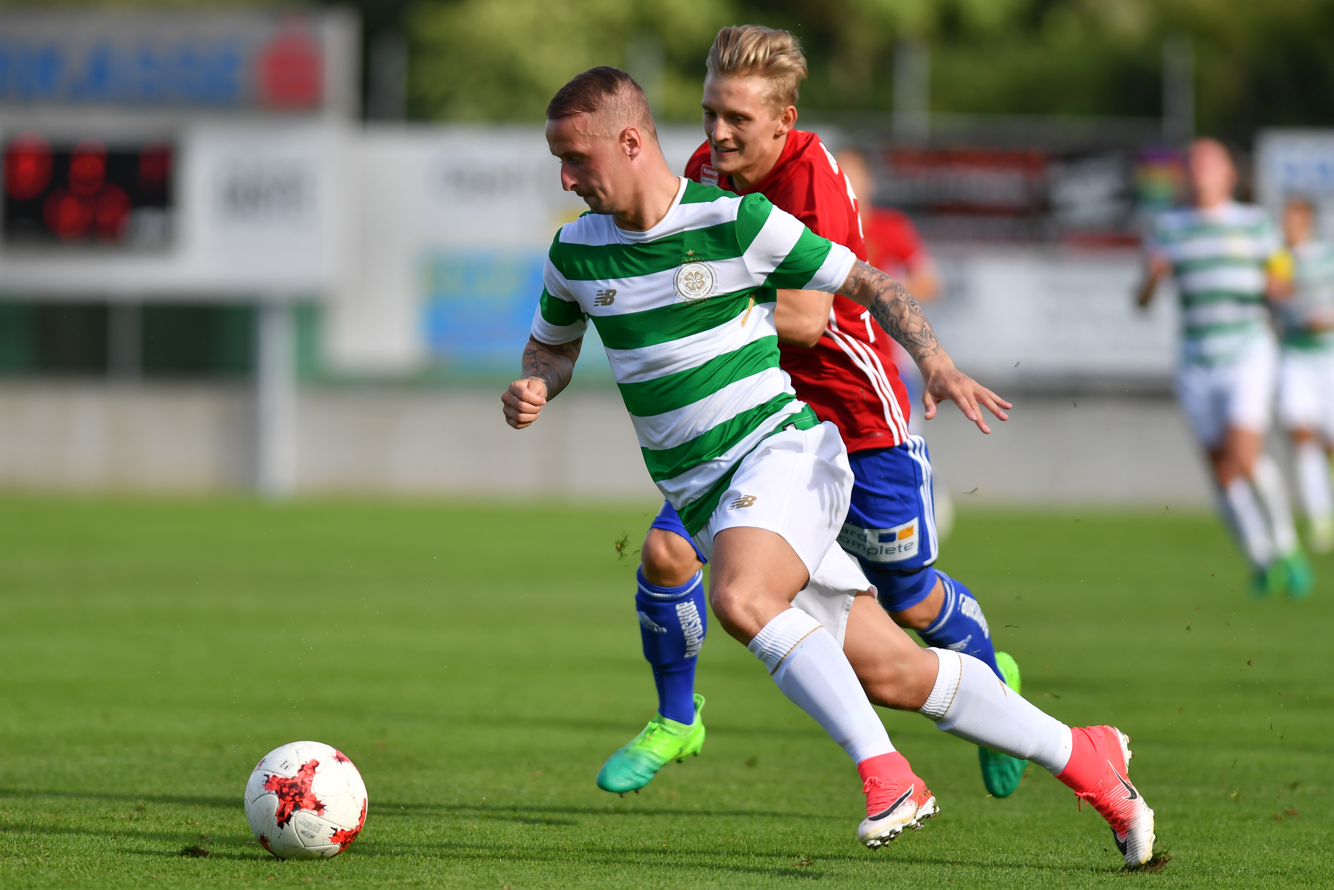 1/7/2017, Amstetten, Austria, sports, soccer, Tipico Fussball Bundesliga - preparation match SK Rapid Wien vs Celtic Glasgow. Image shows Manuel Thurnwald (SCR) and Leigh Griffiths (Celtic FC).